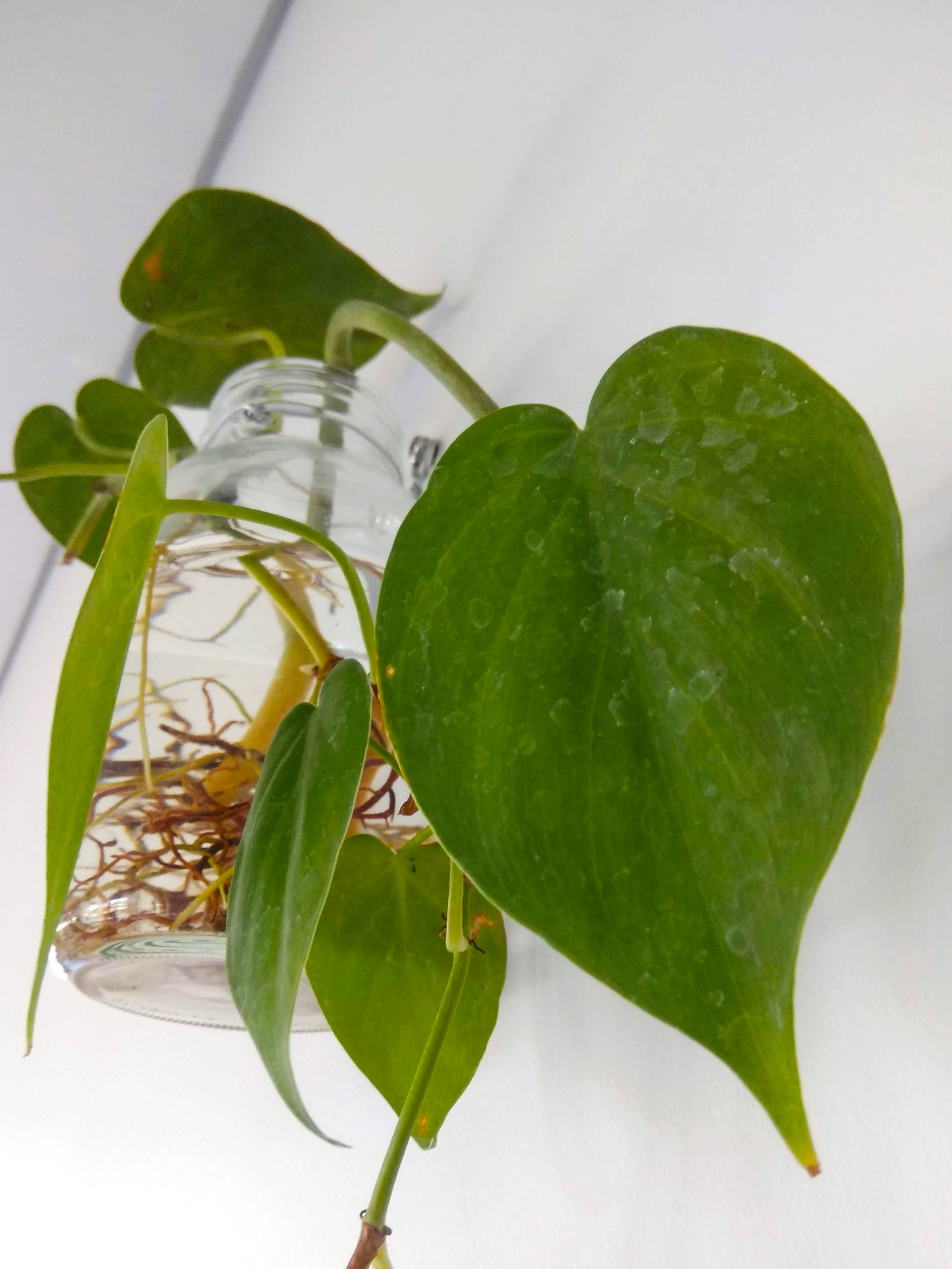 Philodendron cordatum